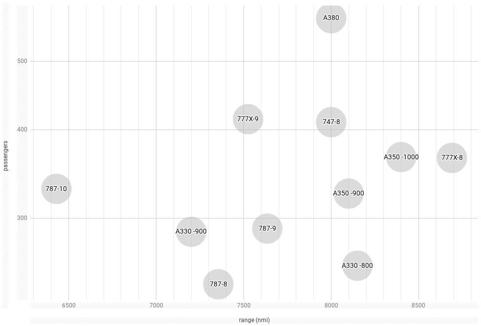 Widebodies passenger capacity and range comparison for Competition between Airbus and Boeing